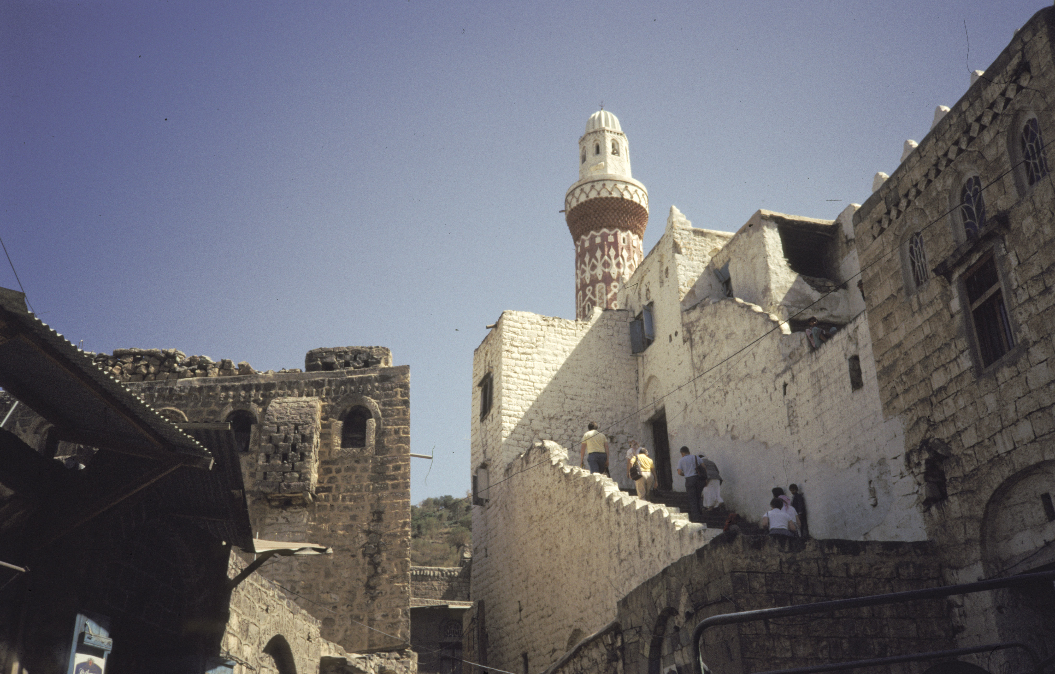 Main entrance of the Queen Arwa Mosque,in Jibla, Yemen.